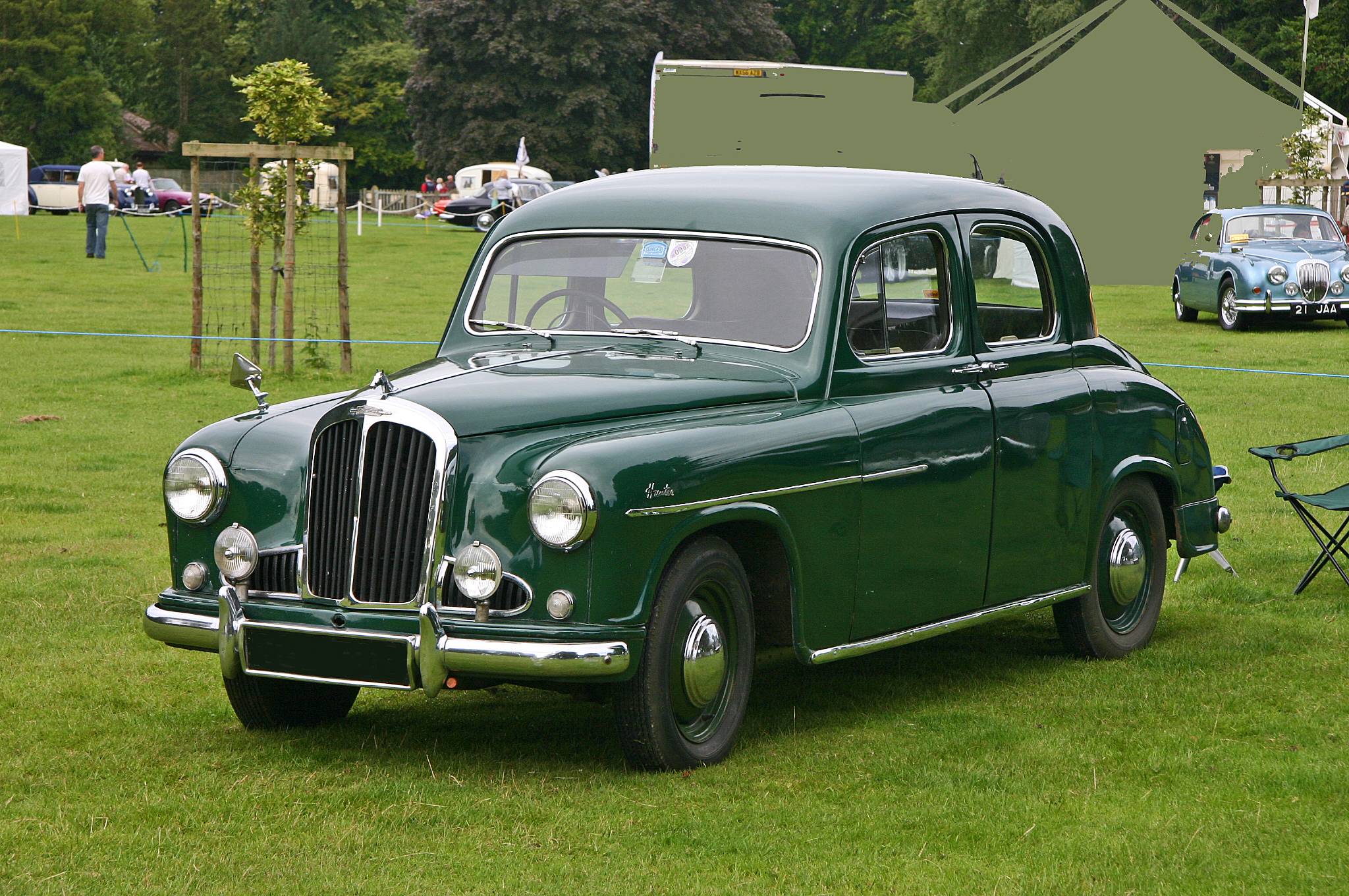 Singer Hunter. In 1948 Singer launched the SM1500 saloon with 1506cc overhead cam engine. In 1954 the SM1500 was remodelled as the Singer Hunter with a 1497cc engine